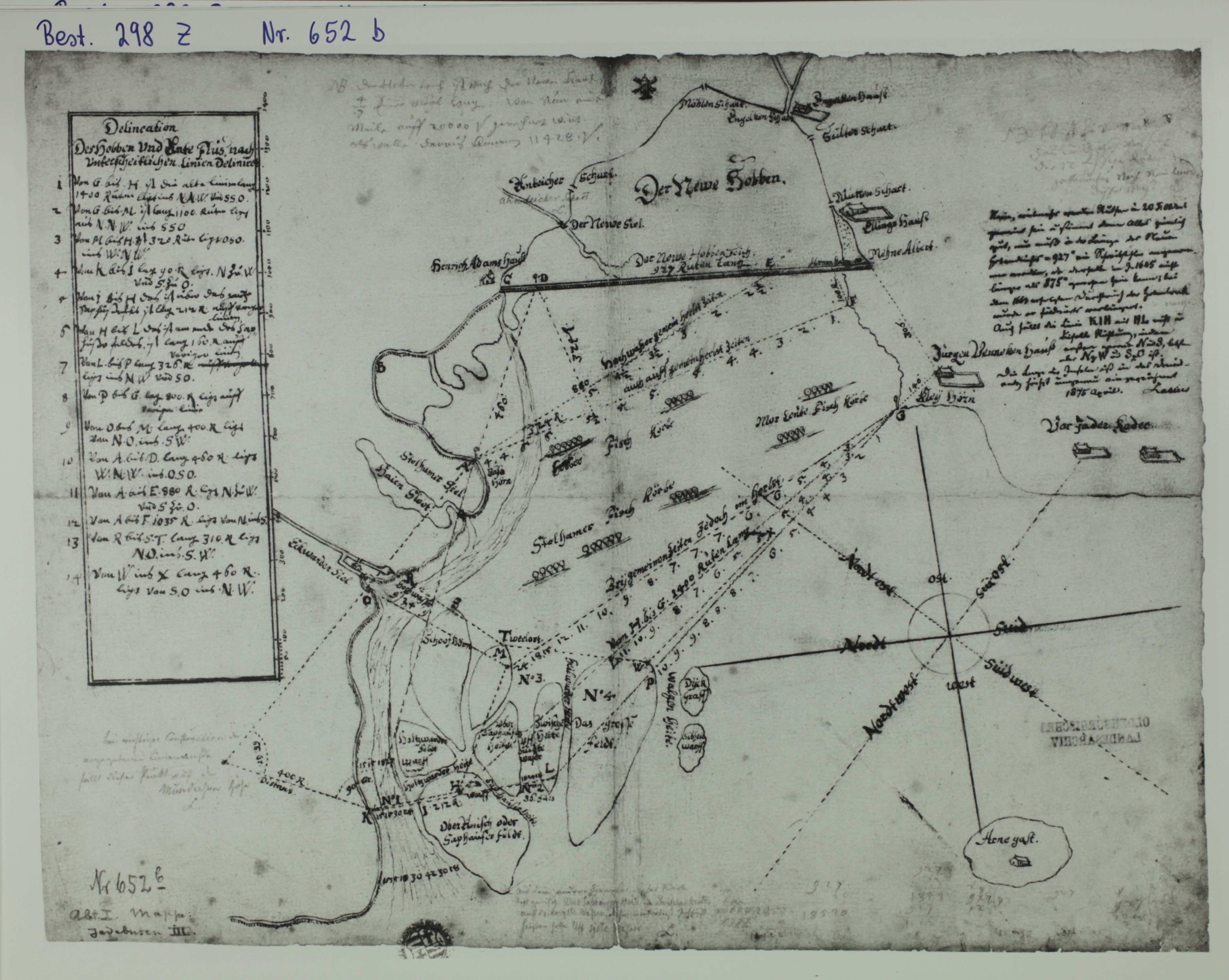 The islands of Oberahnesche Felder in Jade Bight, in the background the recently closed inlet of Hob(b)en (previously called Lockfleth), and the channel Ahne Flus(s) among the foreshore of Jade Bight, the Island of Arn(e)gast is presented much nearer and much smaller than in other maps of the same author; furthermore distance lines and depths are marked, showing a tide range of 12 feet.